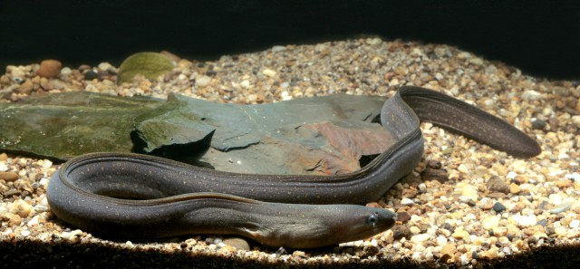 Gymnothorax tile